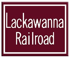 Logo of Delaware, Lackawanna and Western Railroad.